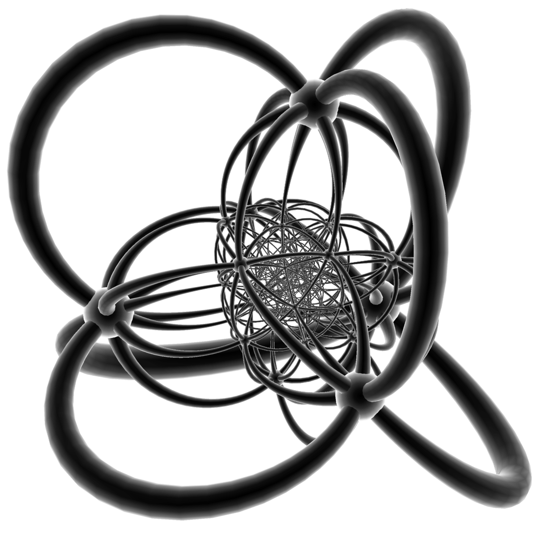 Stereographic projection of the 600-cell, a 4-dimensional polytope. Vertices and edges are shown; faces are not. author: Fritz Obermeyer Cell-Centere stereographic projection. The 720 edges of the 600-cell can be seen here as 72 circles, each divided into 10 arc-edges at the intersections. Each vertex has 6 circles intersecting. url